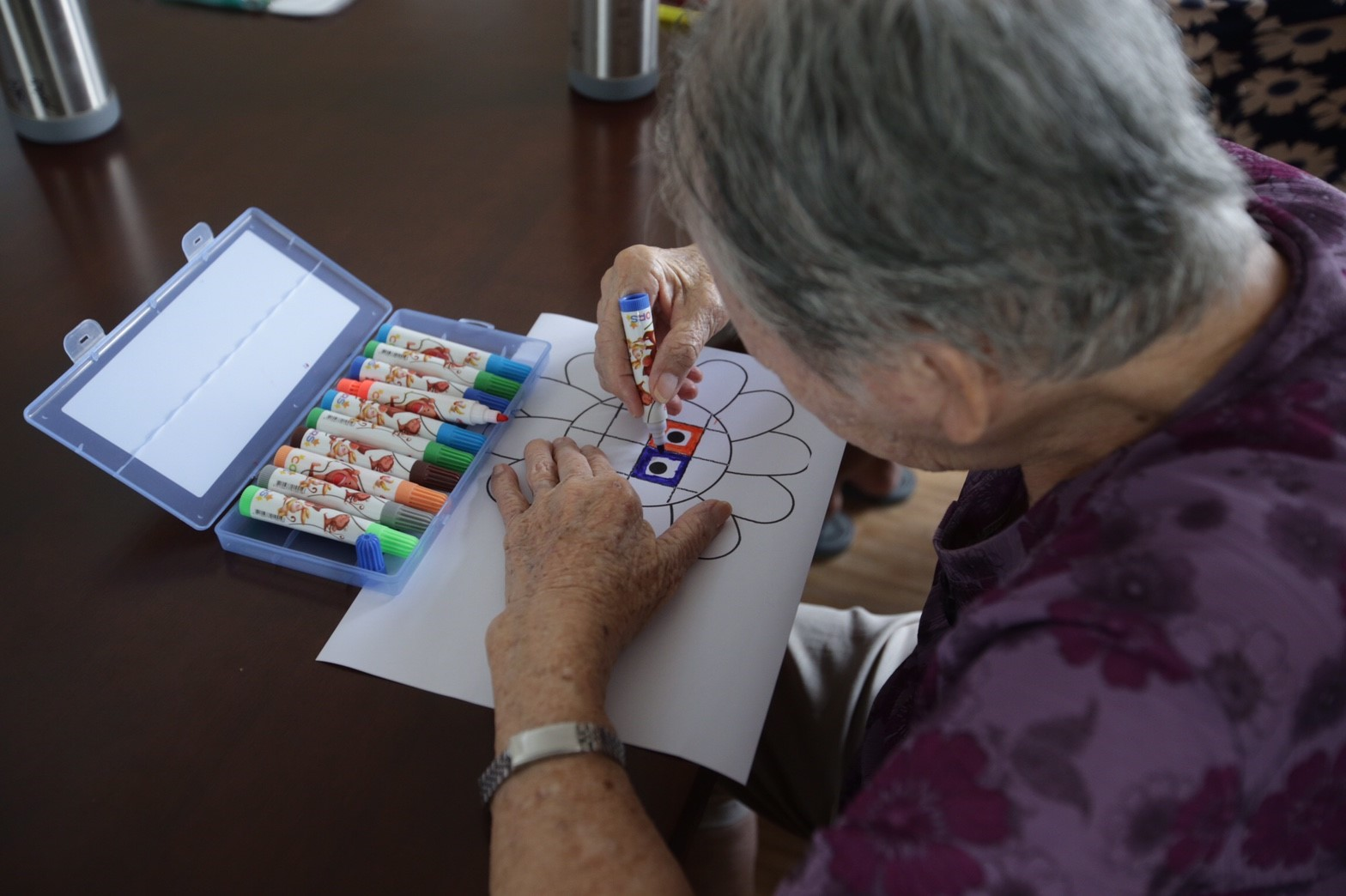 授權方式及範圍：中華民國總統府│政府網站資料開放宣告 Authorization Method & Scope: Office of the President, Republic of China (Taiwan) | Government Website Open Information Announcement